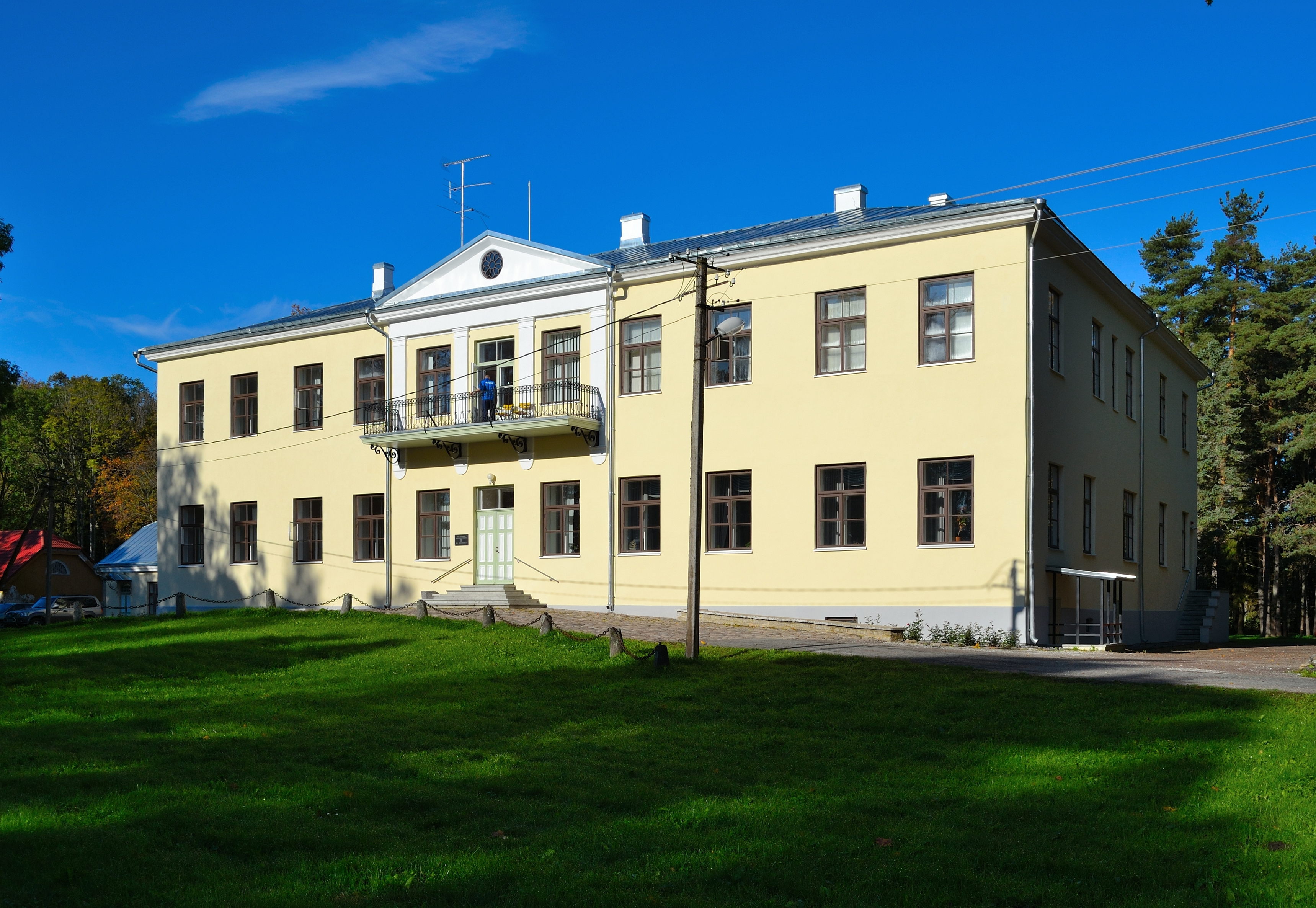 Seli manor main building